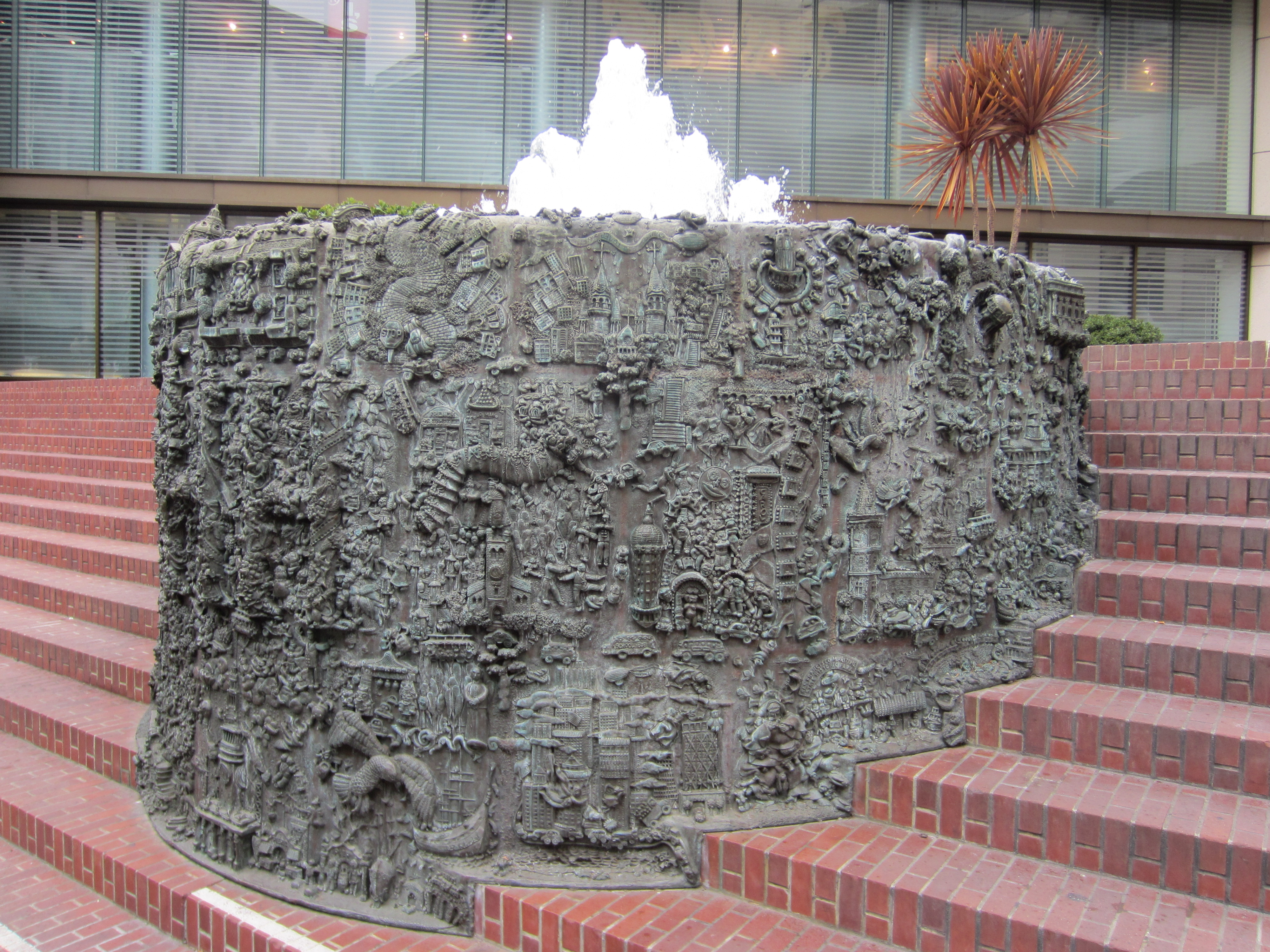 Grand Hyatt San Francisco (2013)